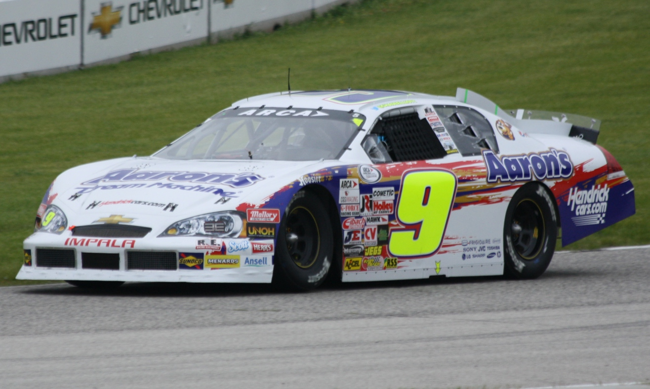 The ARCA Racing Series car of Chase Elliott leading early in the 2013 Scott 160 race at Road America.